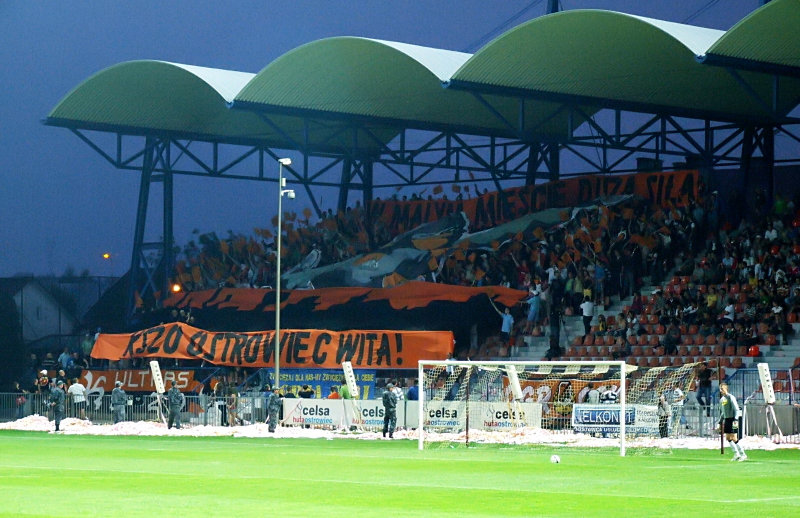 KSZO Ostrowiec supporters during match against Sandecja Nowy Sacz